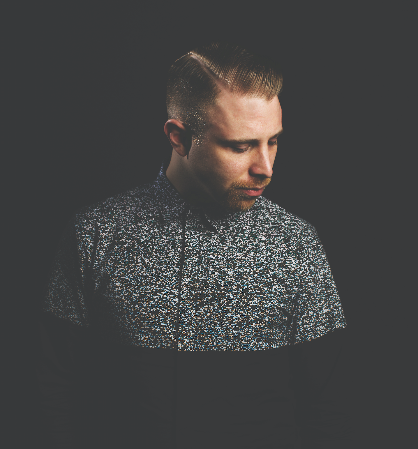 Press Shot of Bedrockk.